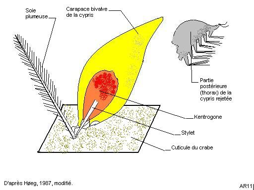 The kentrogon larva of Sacculina carcini.